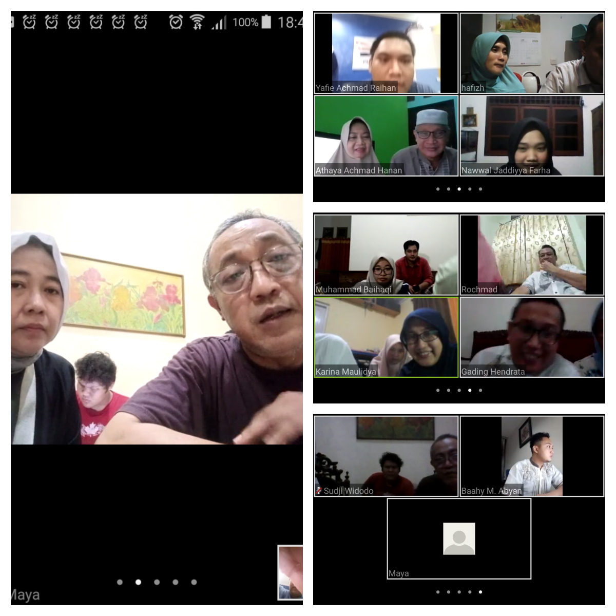 Zoom Video Communication